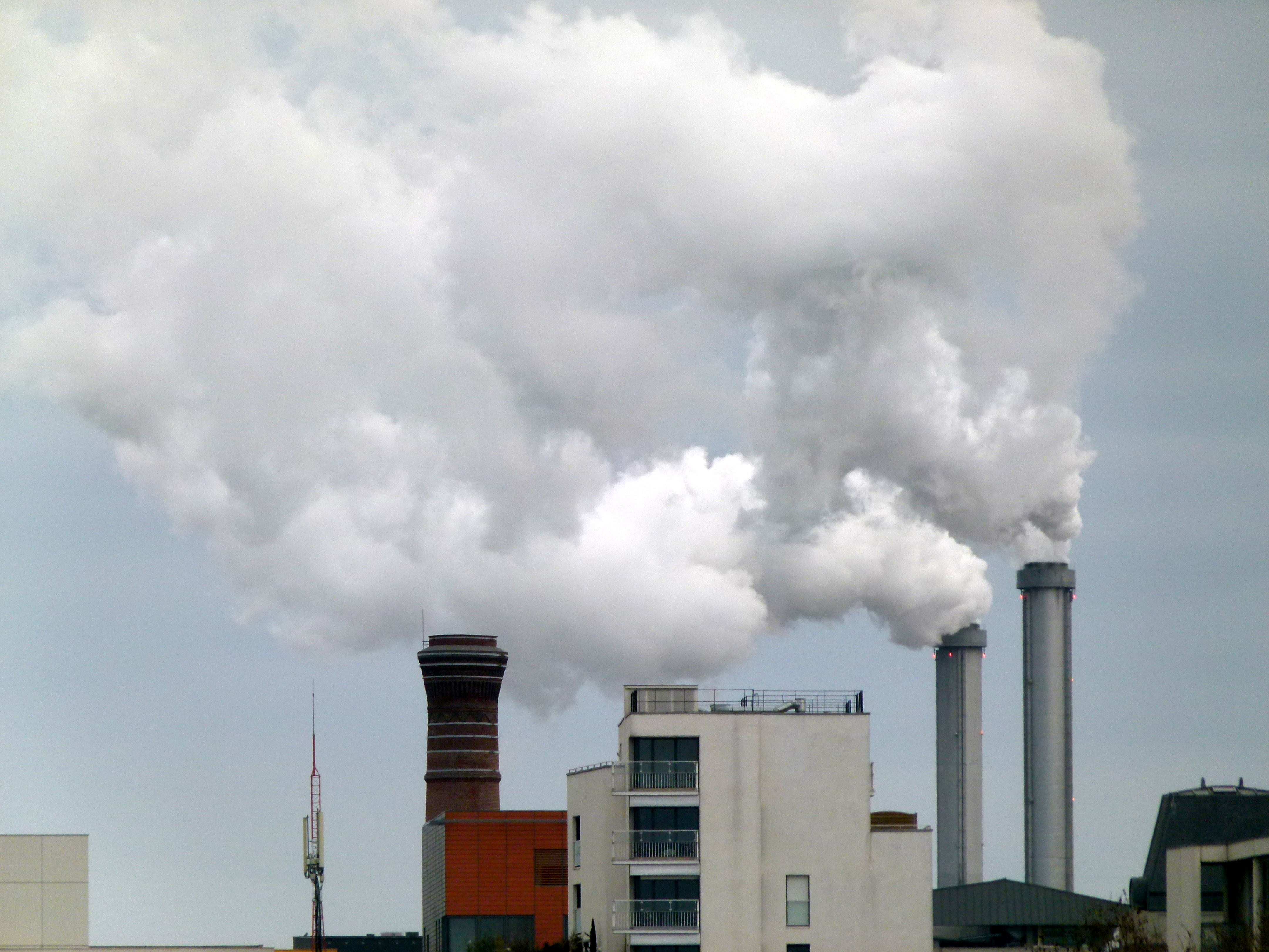 Parisian air